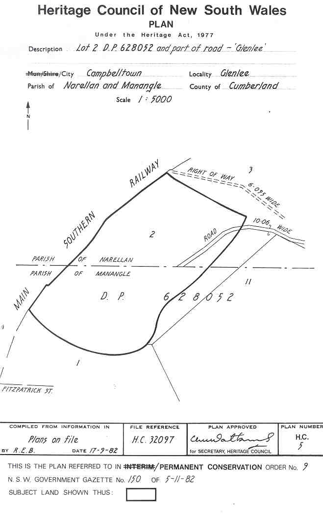 Glenlee, Menangle Park: PCO Plan Number 009